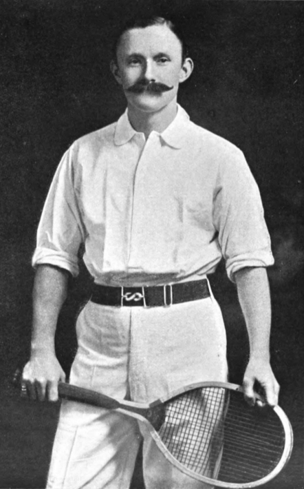 Arthur William Gore (1868-1928), English tennis player, Wimbledon singles champion in 1901, 08, 09